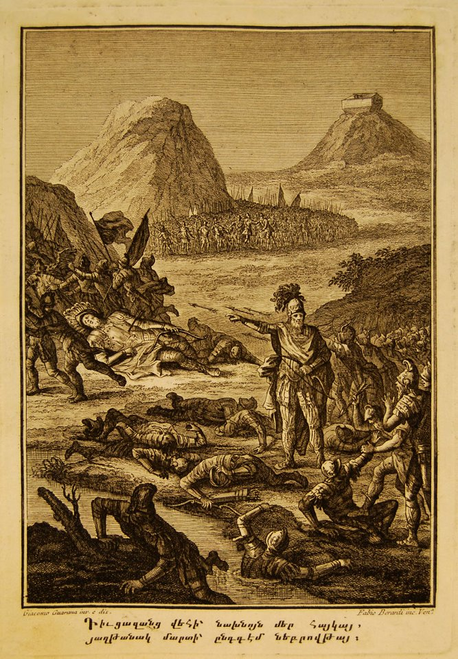 Michael Chamchian. The History of Armenia from the Beginning of the World until 1784. vol. 1. Venice: Tparan Petros Vaghvazeants, 1784